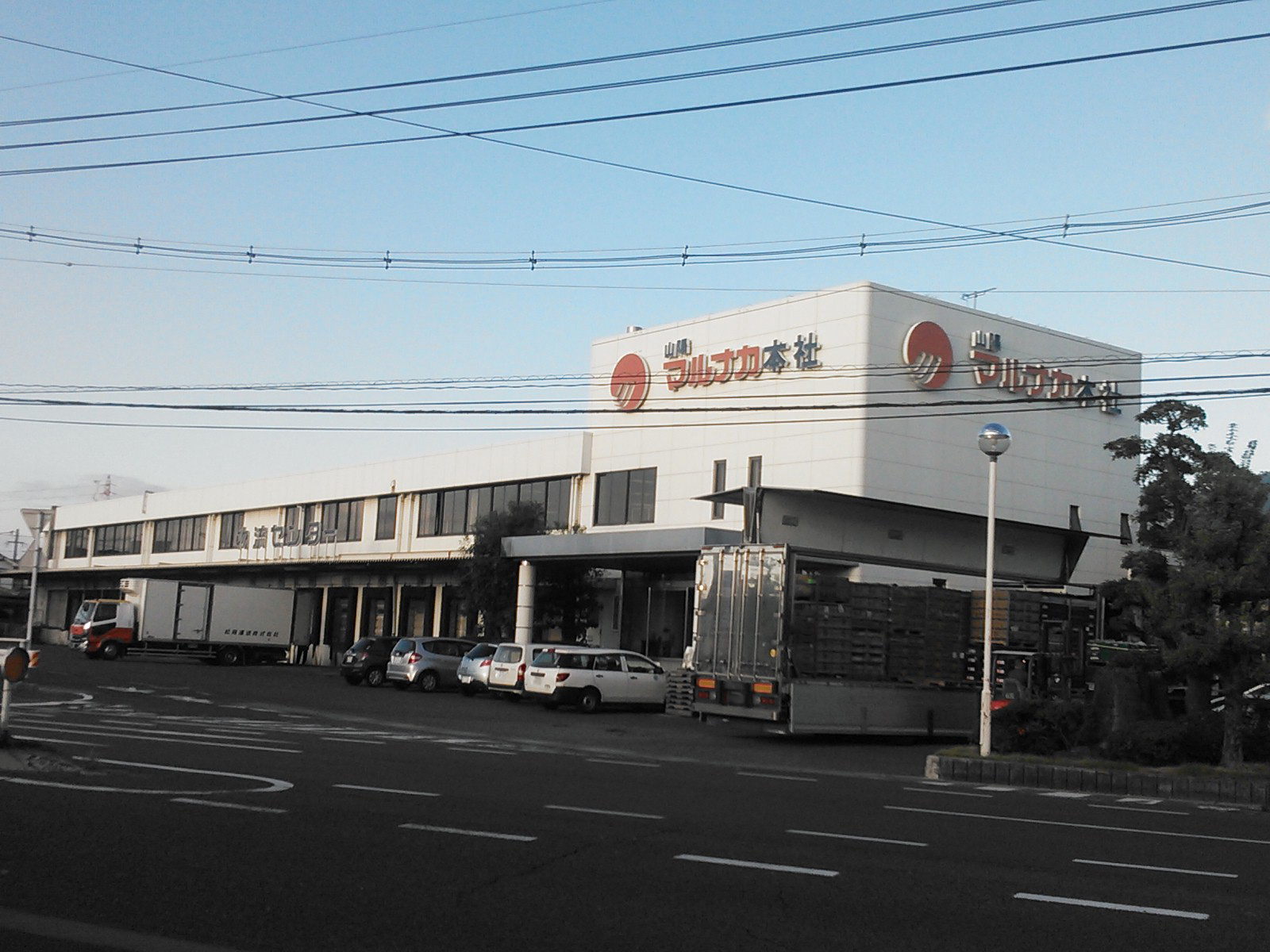 岡山市南区平福、山陽マルナカ本社物流センター。投稿者による撮影。